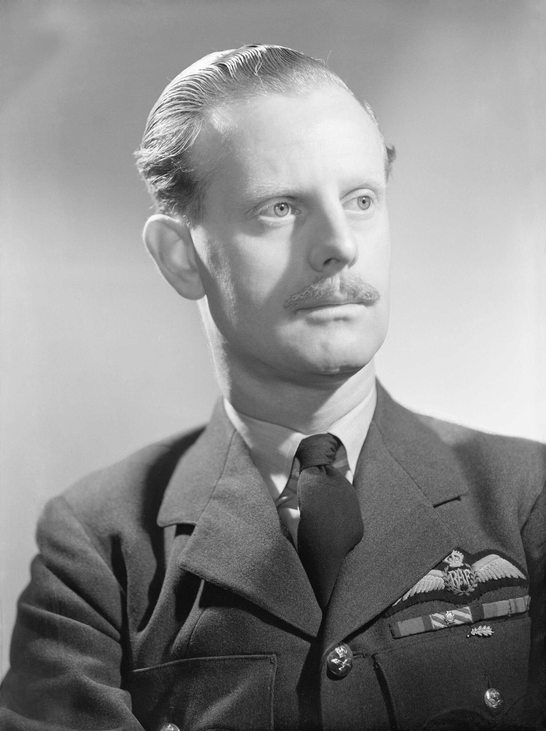 Royal Air Force- 2nd Tactical Air Force, 1943-1945. Wing Commander C F "Bunny" Currant. Flying with No. 605 Squadron RAF during the Battle of Britain, Currant destroyed 13 enemy aircraft. In late 1941 he became Commanding Officer of No. 501 Squadron RAF and, in April 1942 Wing Commander Flying at Ibsley. He became a wing leader in 1944. His final score was at least 15 victories.